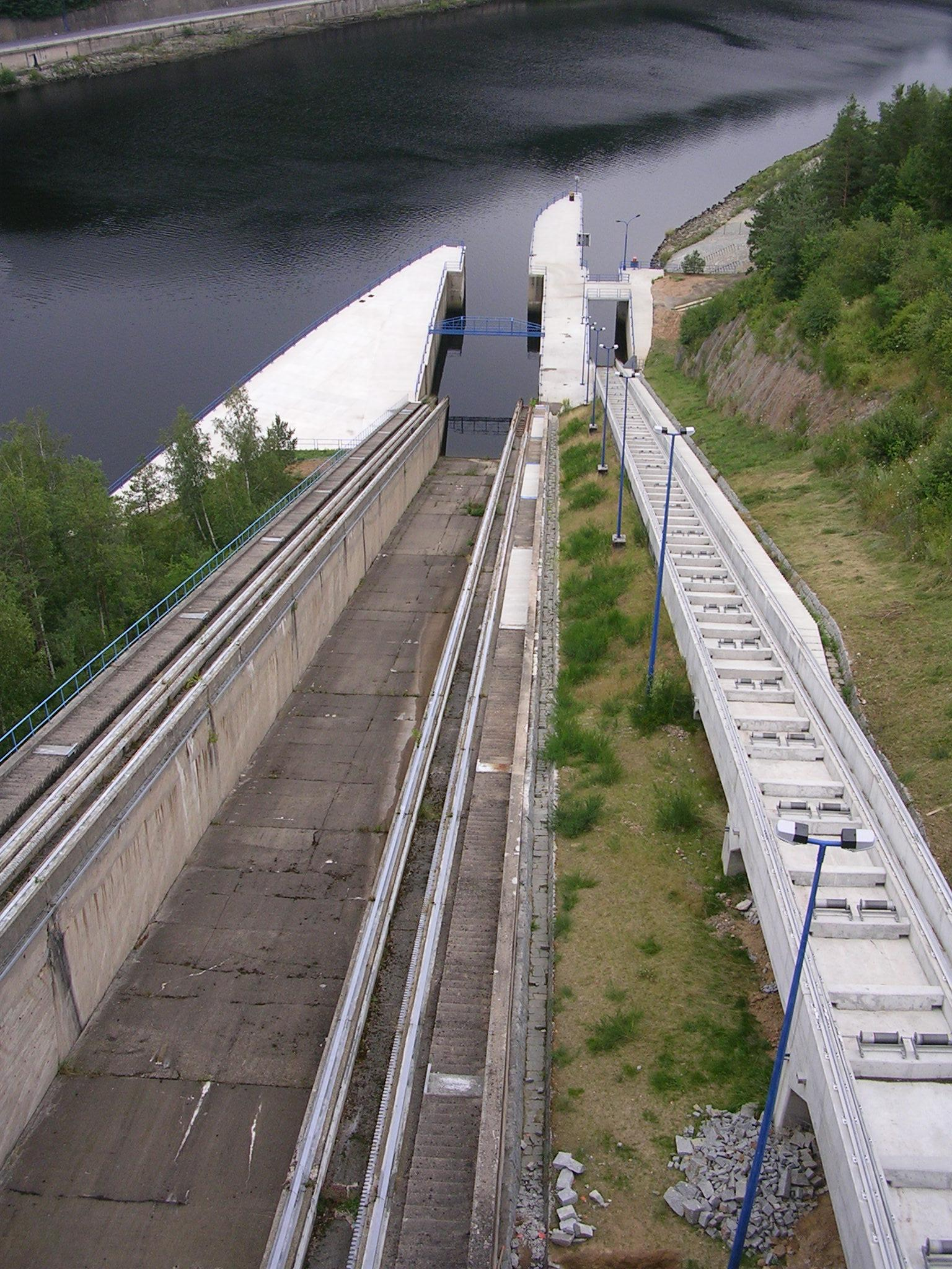 Boat lifts. Orlík Dam, the Czech Republic.